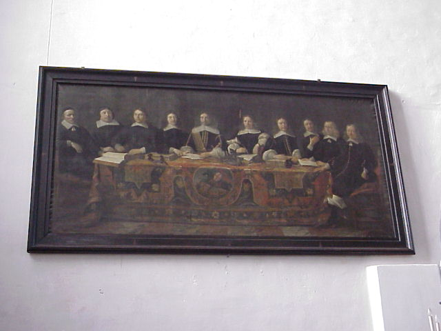 The only work of Gerrit Stellingwerf. (Google translator)